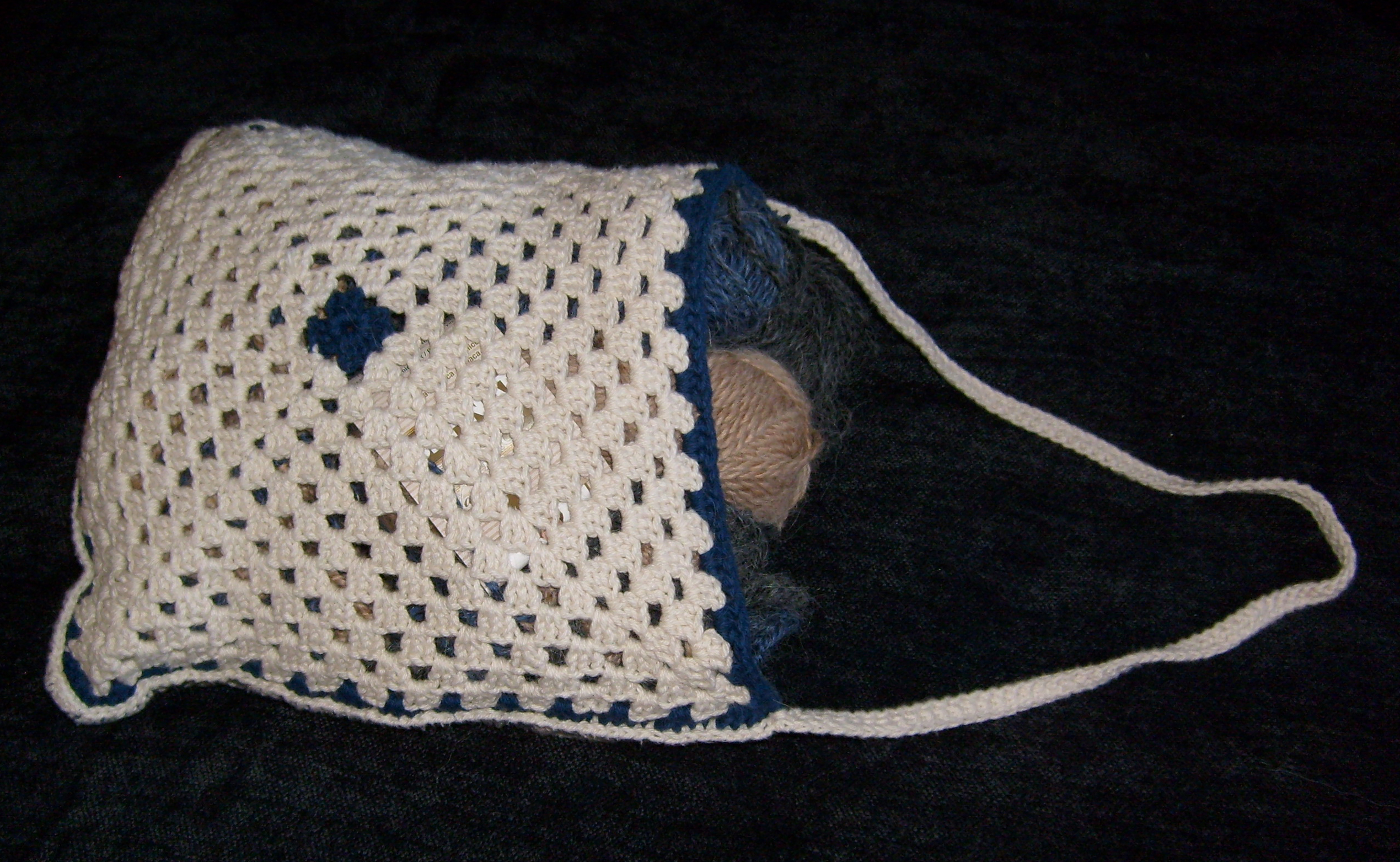 Tote bag. Crochet: dual granny squares with single crochet seam and strap, cotton. Original design